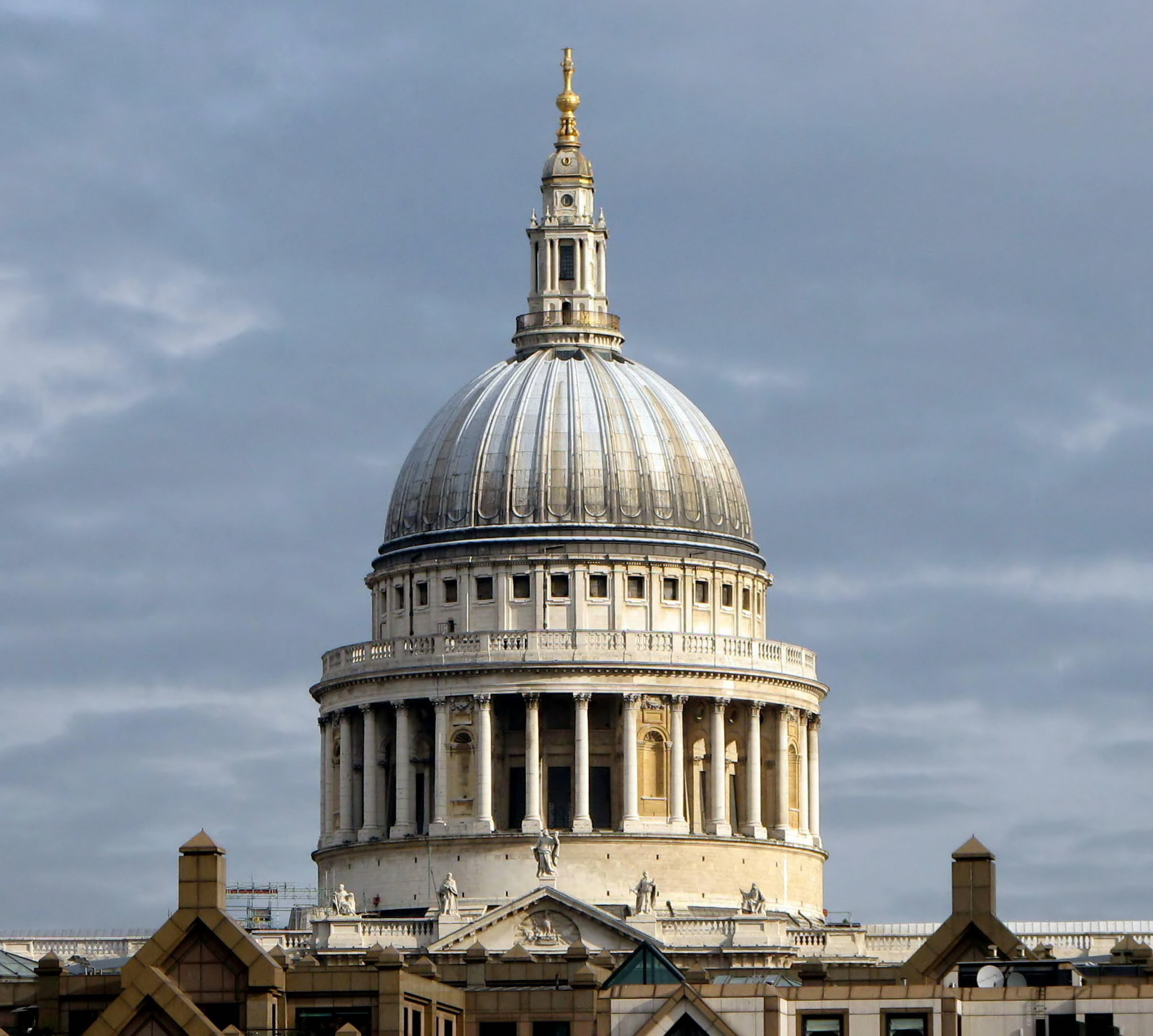 Dome of the Saint Paul's Cathedral seen from Tate Modern, London, England